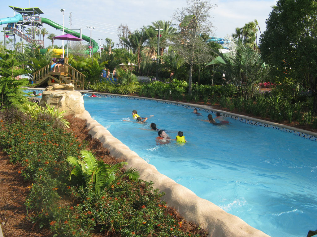 Roa's Rapids lazy river at Aquatica water park in Orlando.